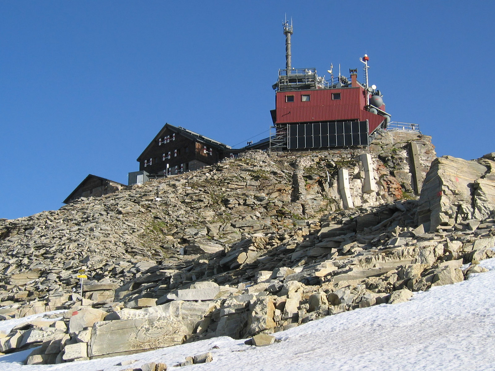 Zittelhaus (left) and meteorological station (right) on the peak of the Hoher Sonnblick